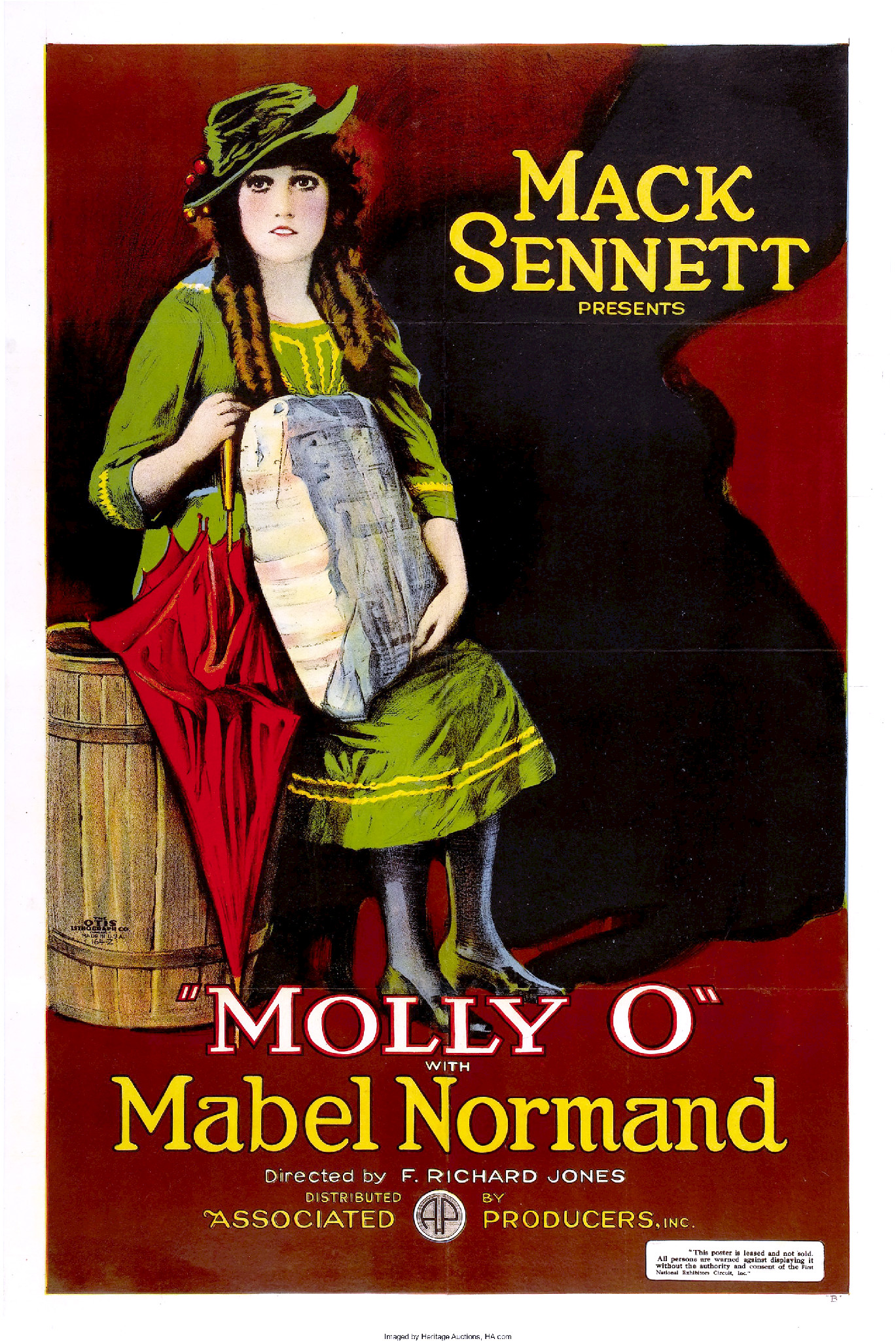 Poster for the American film Molly O (1921) with Mabel Normand.